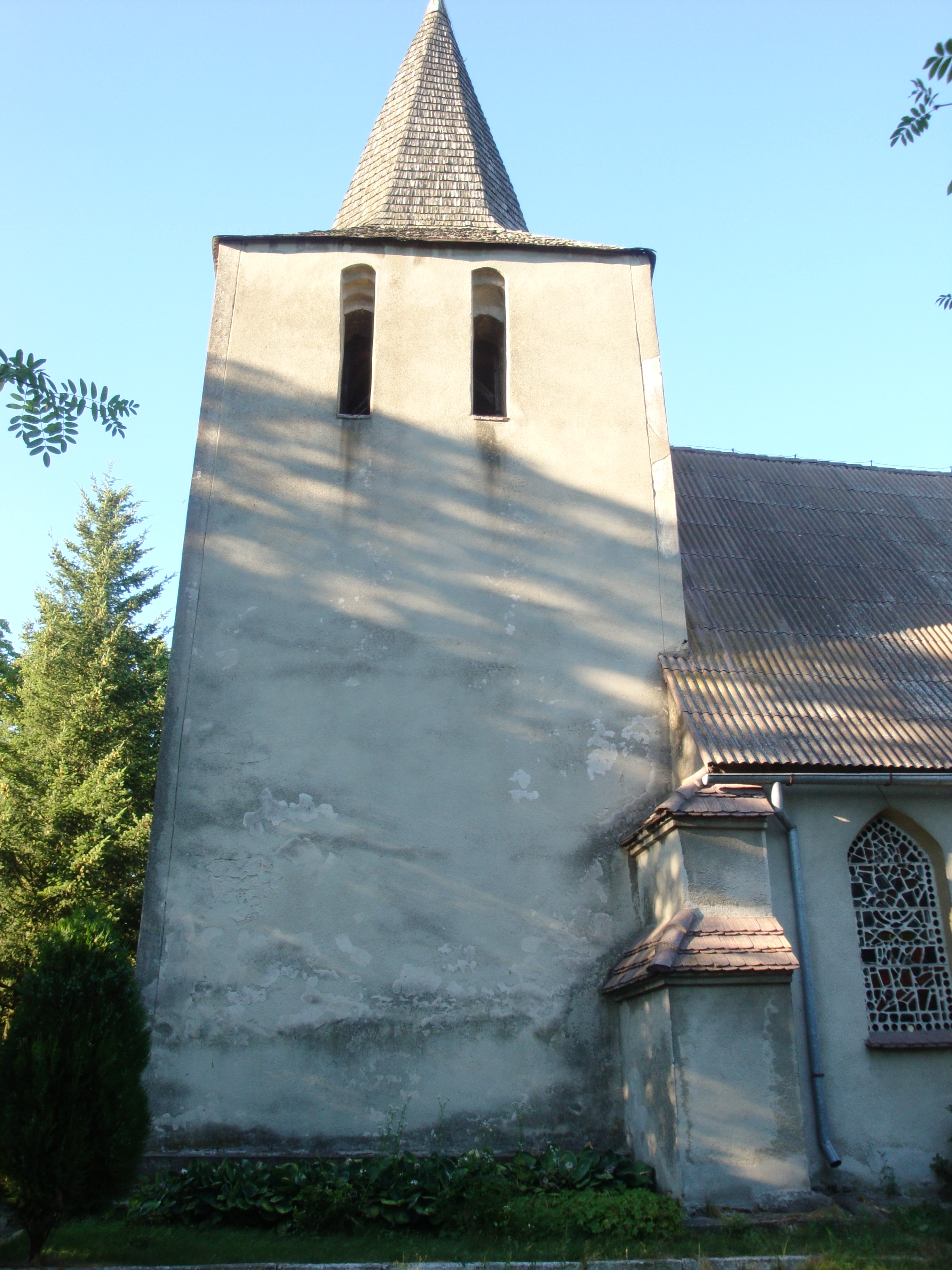 Stowęcino-village in Pomeranian Voivodeship, Poland.